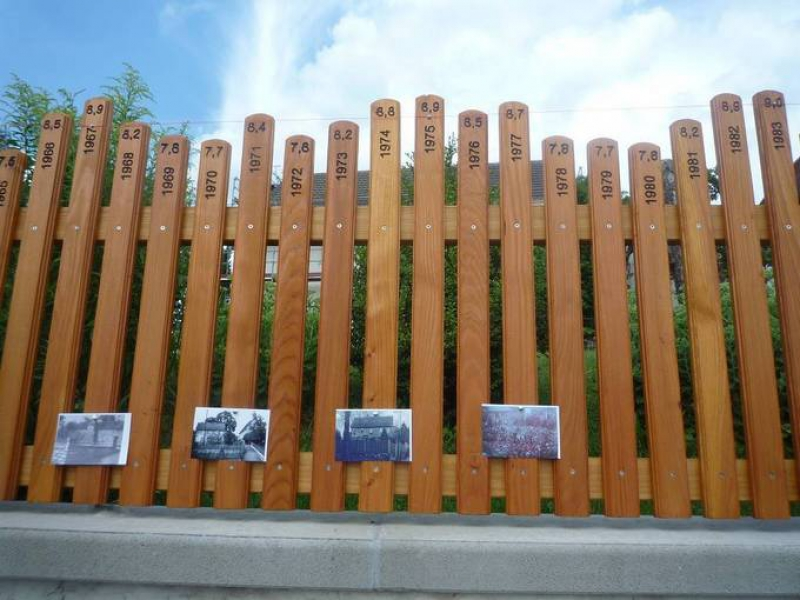 Climate fence at Schreufa weather museum